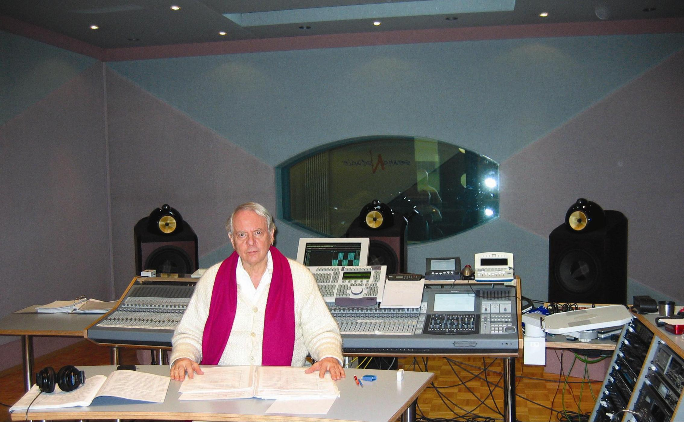 Karlheinz Stockhausen on 7 March 2004 during the mix-down of Engel-Prozessionen (Angel Processions) from Sonntag aus Licht in Sound Studio N, Cologne. (Photo: Kathinka Pasveer) DAW: Fairlight console: Sony Oxford monitor: Bowers & Wilkins